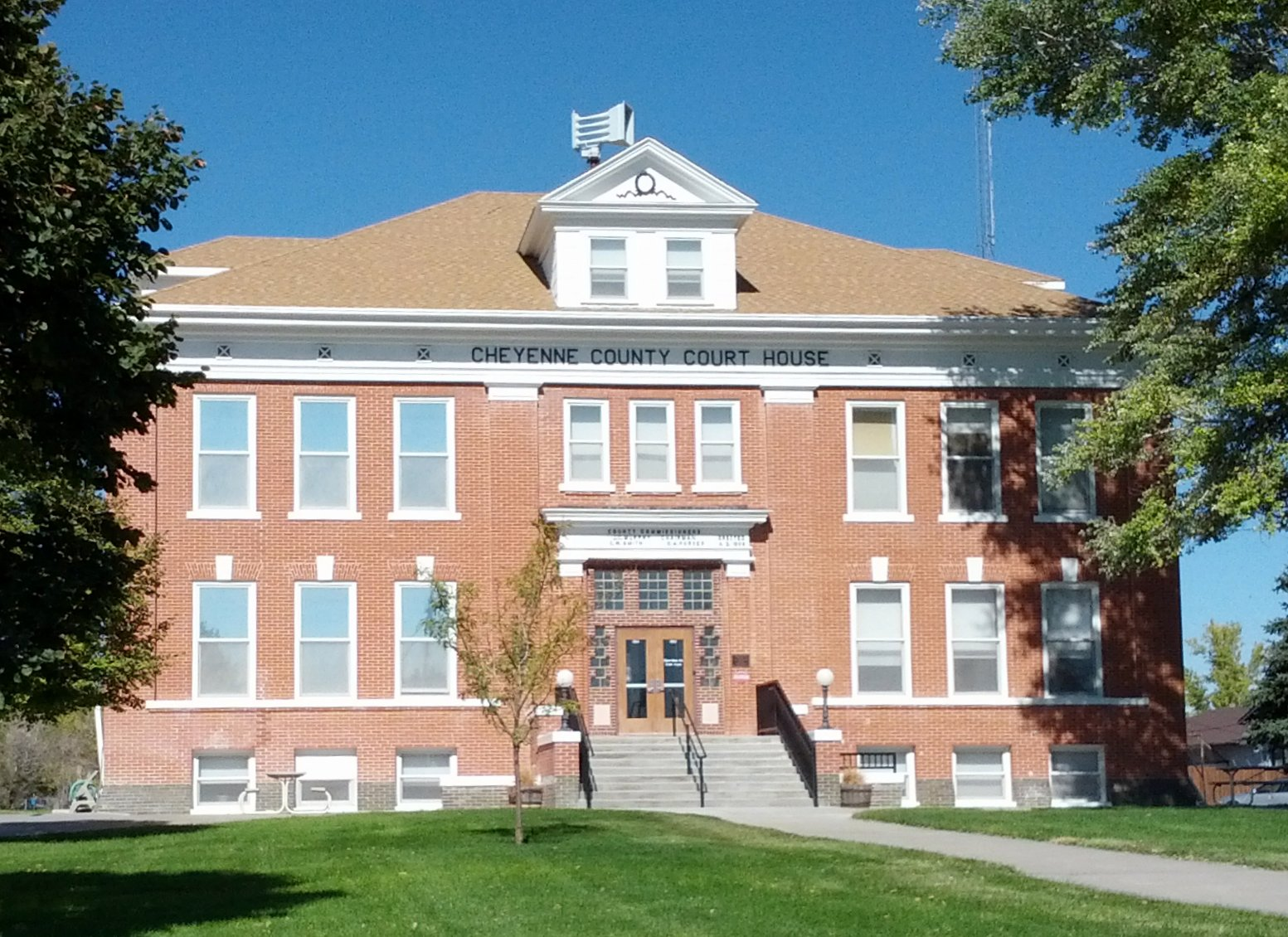 Cheyenne County Colorado Courthouse